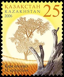 Stamp of Kazakhstan